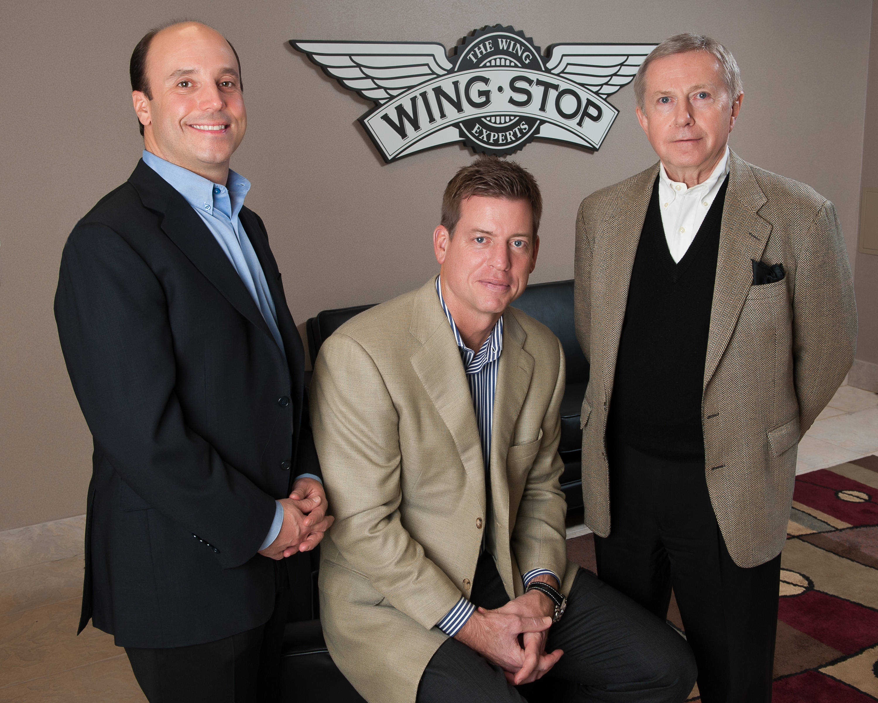 Troy Aikman Board Announcement